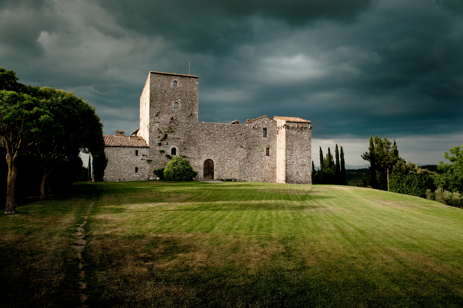 TodiCastle a castle in Umbria, Italy